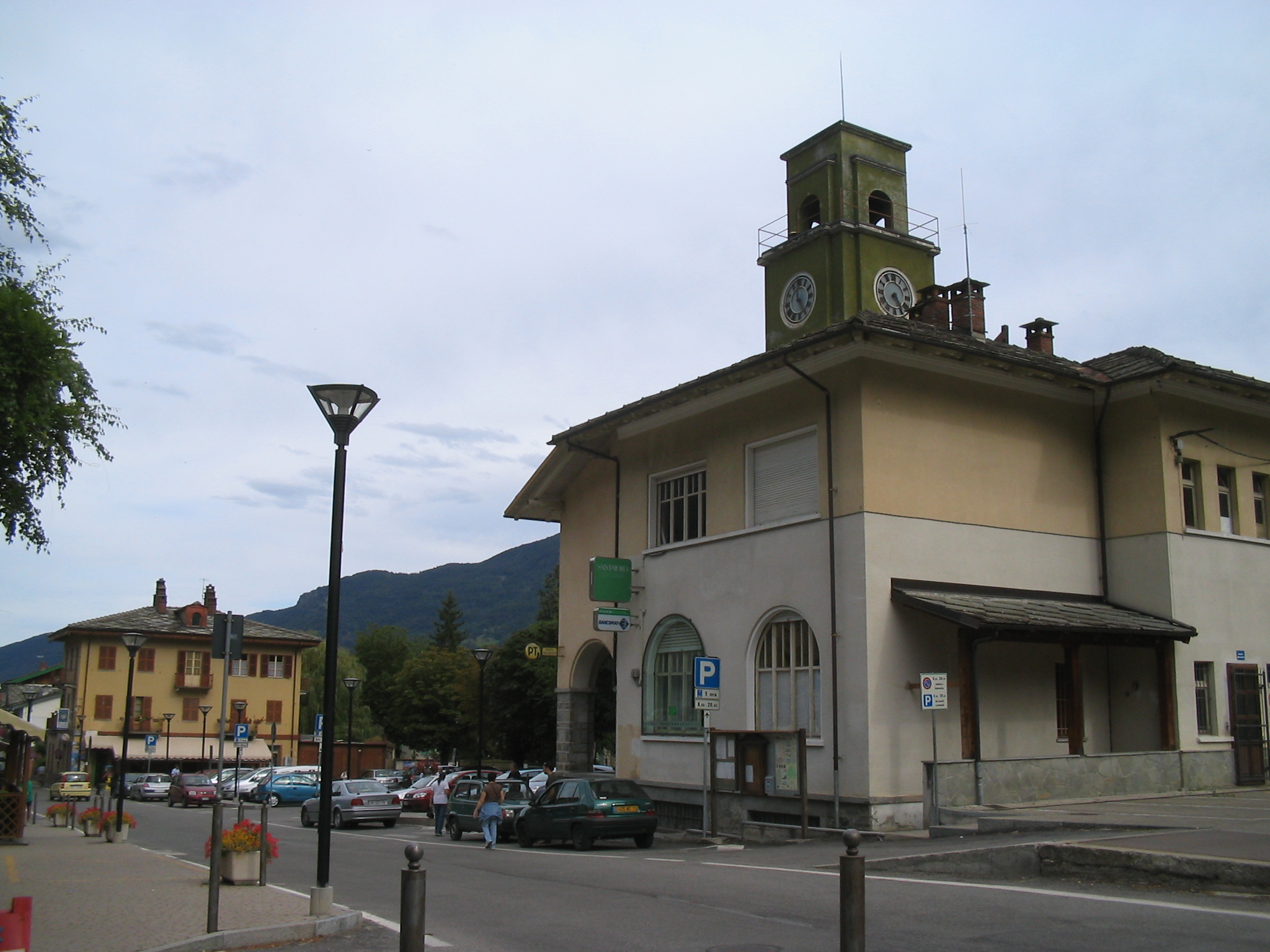 View of the town of Bobbio Pellice, in Val Pellice; province of Turin, Piedmont.